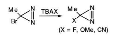 diazirene exchange